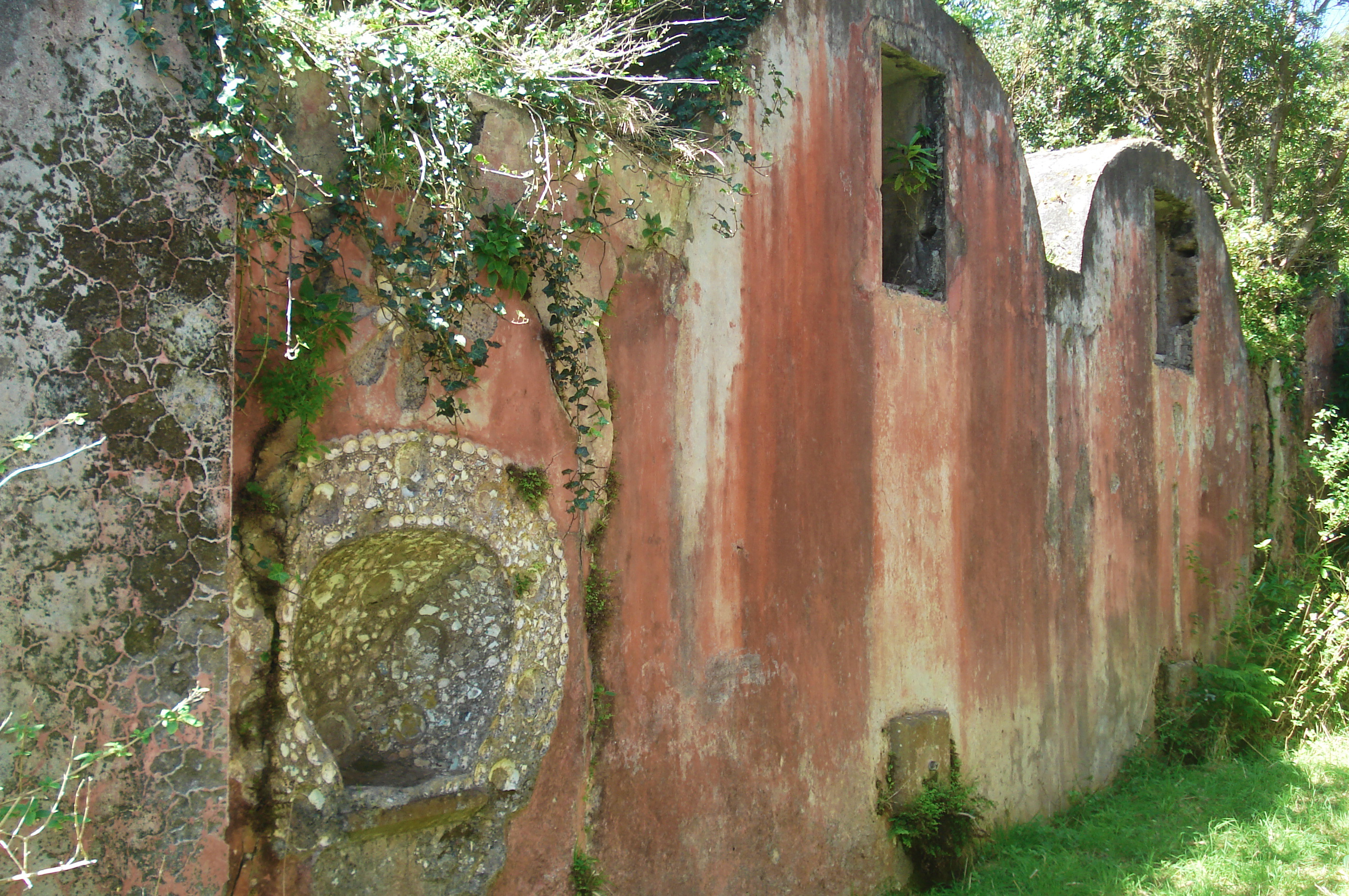 The twin vaulted cisterns alongside the main house of the Palacete of Pilar, in the civil parish of Conceição, municipality of Horta (Azores), Portugal